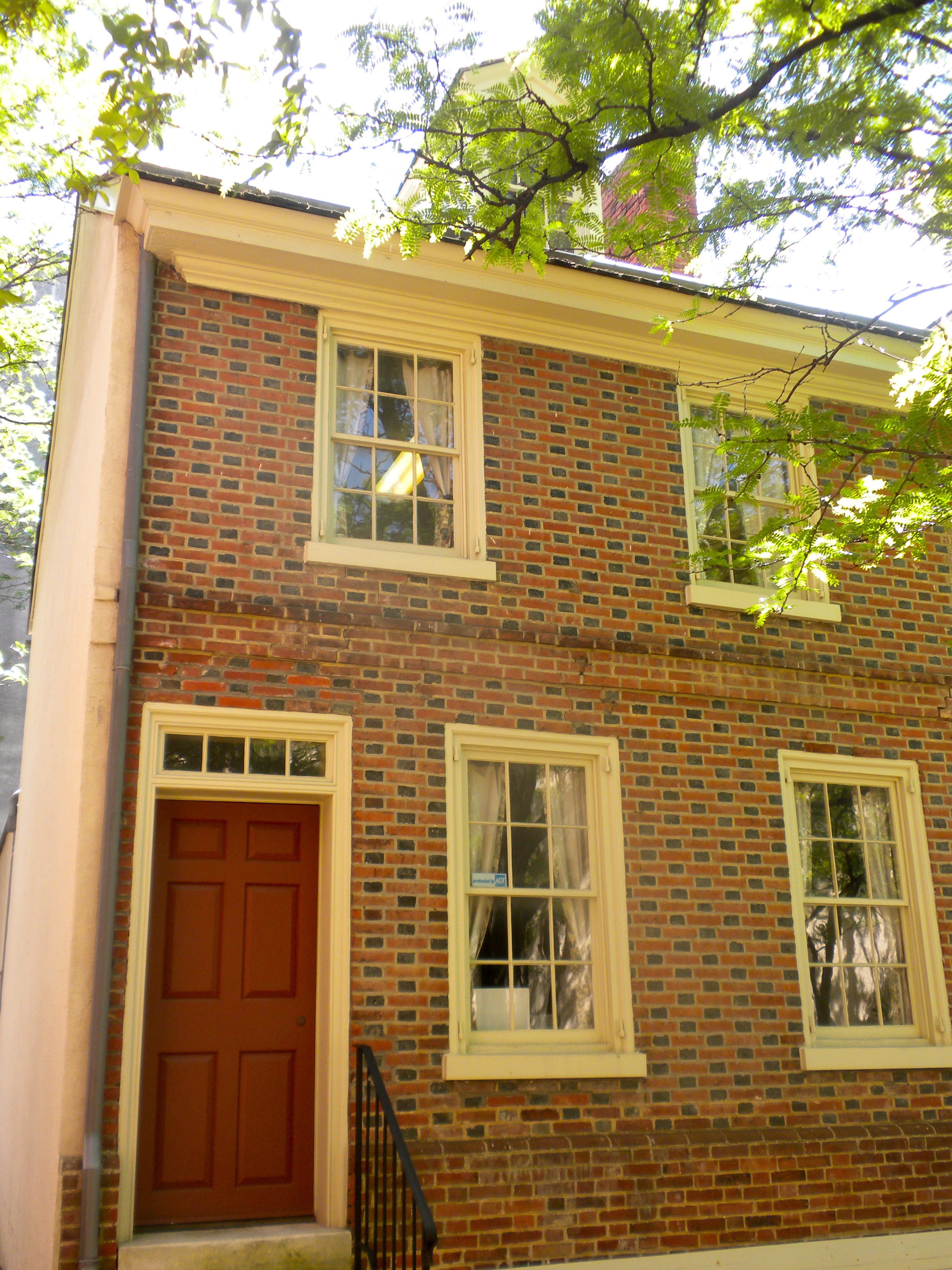 Jacob Dingee House on the NRHP since October 16, 1970. Formerly at 105 E. 7th St., but since moved to Willington Square (correct spelling) off Market Street in Wilmington, Delaware. Right next to the Obidiah Dingee House. These are very similar buildings built around the same time (1774?), with the front laid in Flemish bond, but the Jacob Dingee house has black-glazed headers in the brickwork.